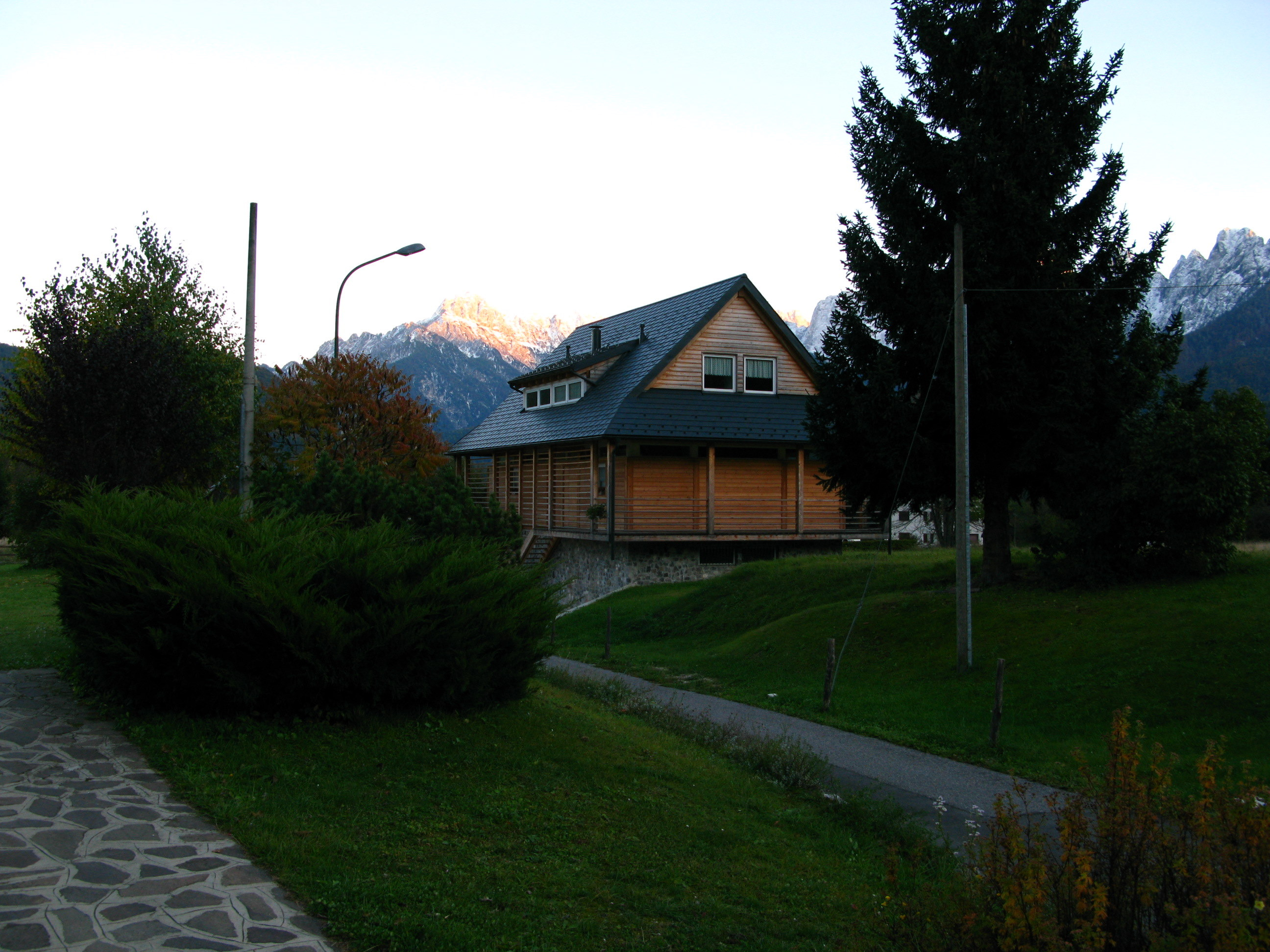 New house beside the field of Coccau in Coccau di Sopra, community Tarvisio in Friuli-Venezia Giulia / Italy / EU. In the background the Julian Alps.